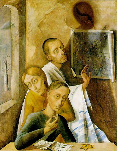 Group of three people, allegorical painting by Felix Nussbaum, Brussels, 1944. It is not a self-portrait with a portrait of Felka Platek and of Jaqui, a boy who wasn't their child (they didn't have any) and who wasnt' a teenager at this time. See catalogue Felix Nussbaum, Verfemte Kunst - Exilkunst - Widerstandskunst, Osnabrück 1990